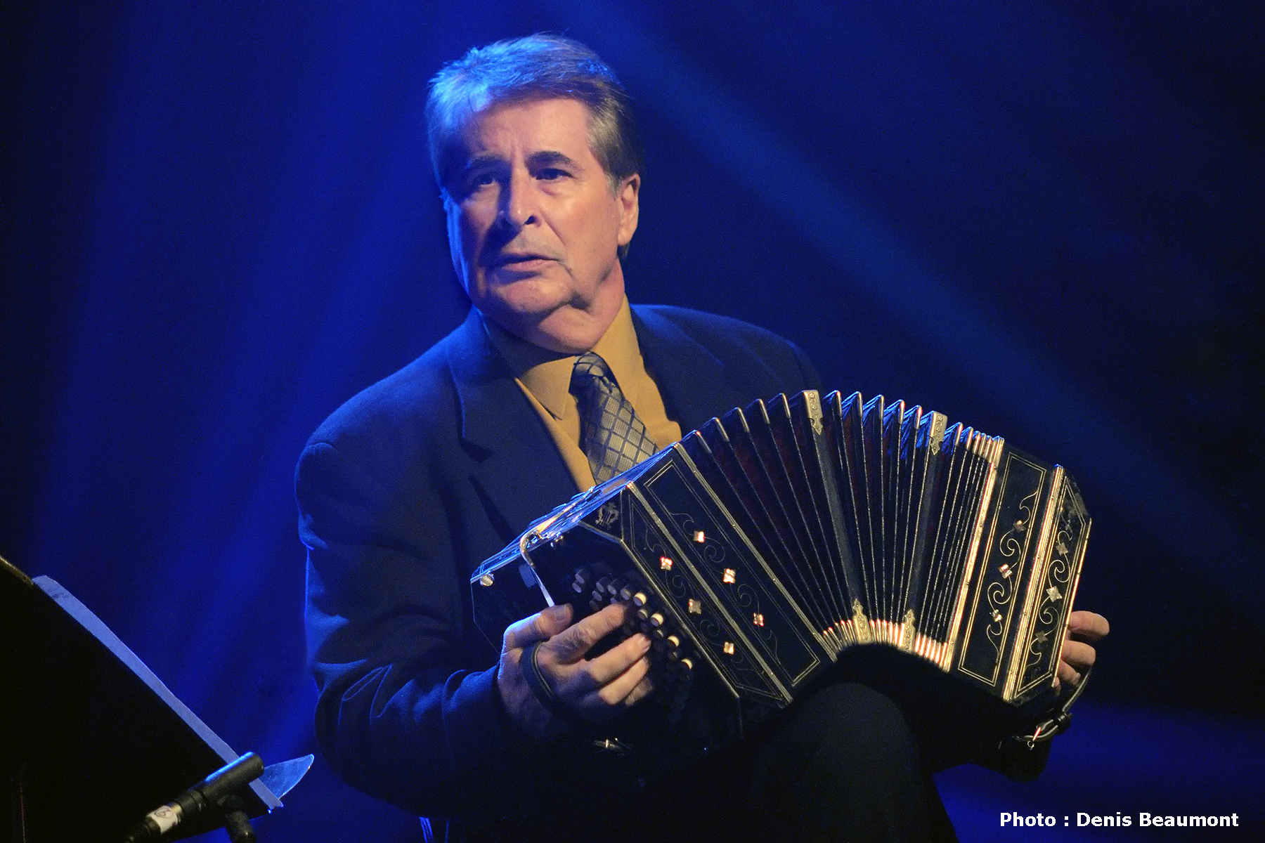 Tango musician & composer